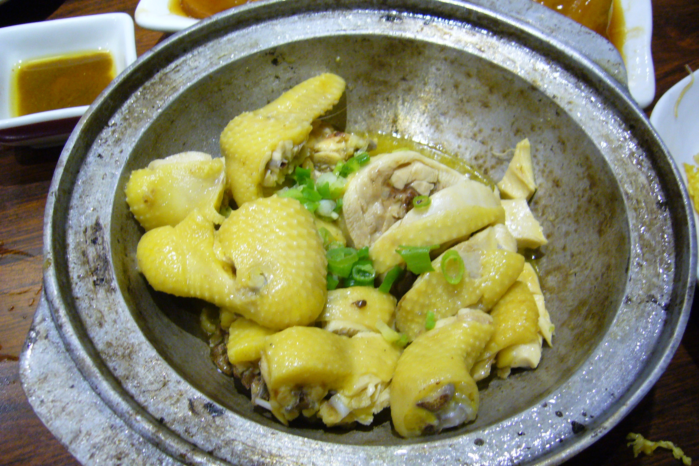 Salt baked chicken (東江鹽焗雞) as served at Hong Kong theme restaurant Hakka Hut. This version was probably brined and baked, not baked in the traditional salt crust.